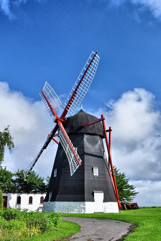 Kuremøllen windmill between Østermarie and Svaneke on the island of Bornholm in Denmark